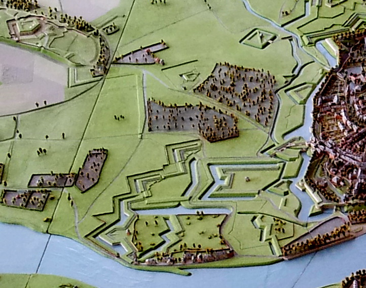 Detail of the Maquette of Maastricht showing the former inundation area De Kommen south of the city. The scale model was made in 1974-82, a genuine copy of the 18th-century original made for King Louis XV of France (now in the Palais des Beaux-Arts in Lille). Usually only the central part is on display in Centre Céramique; once in five years the whole maquette is exhibited, as is the case here.